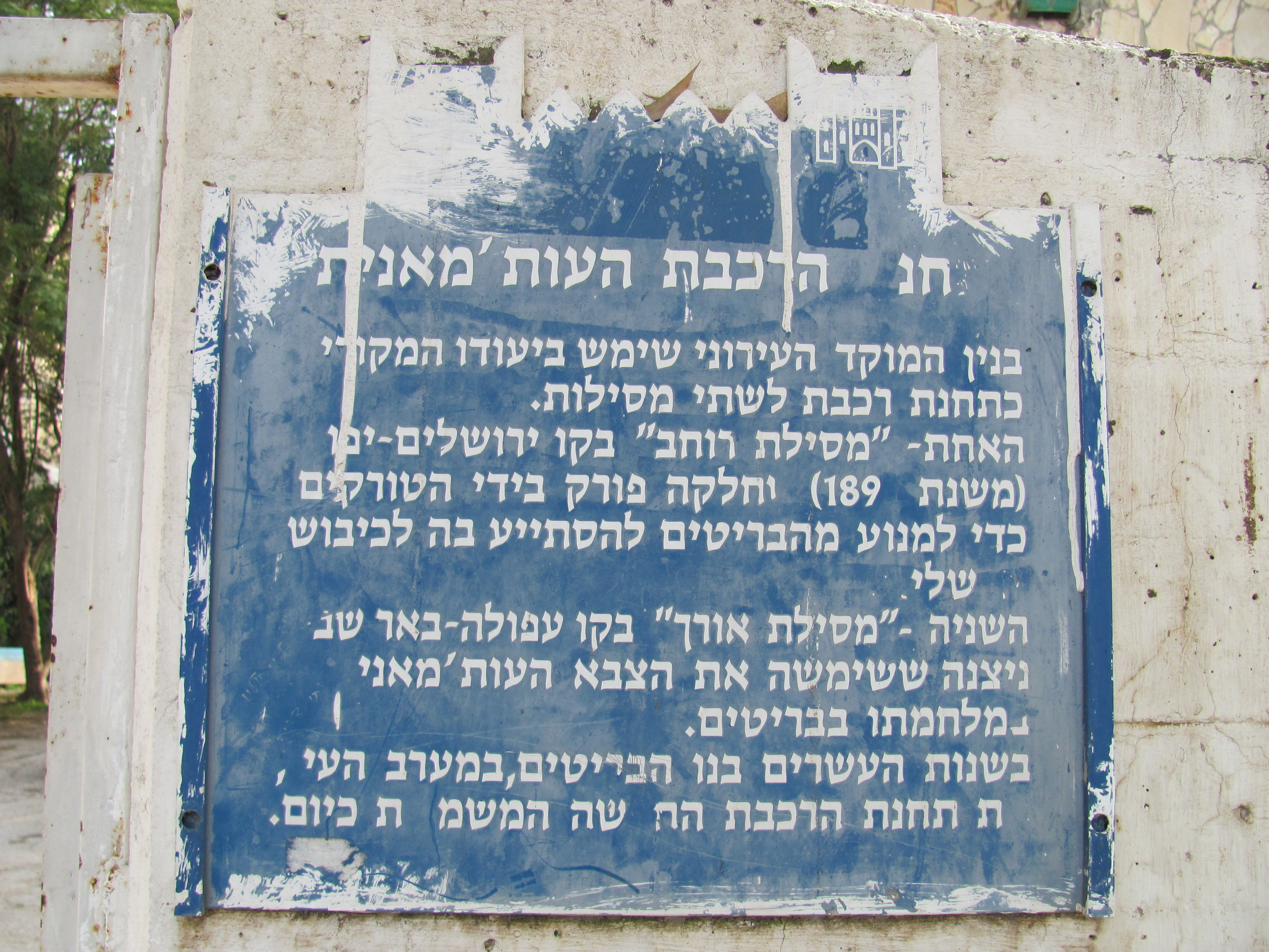 Old Lod Othman Railway Station Sign